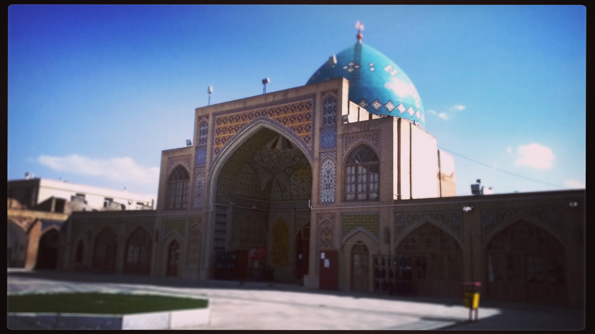 seyed cental mosque in south of sabze meydan in zanjan of iran.